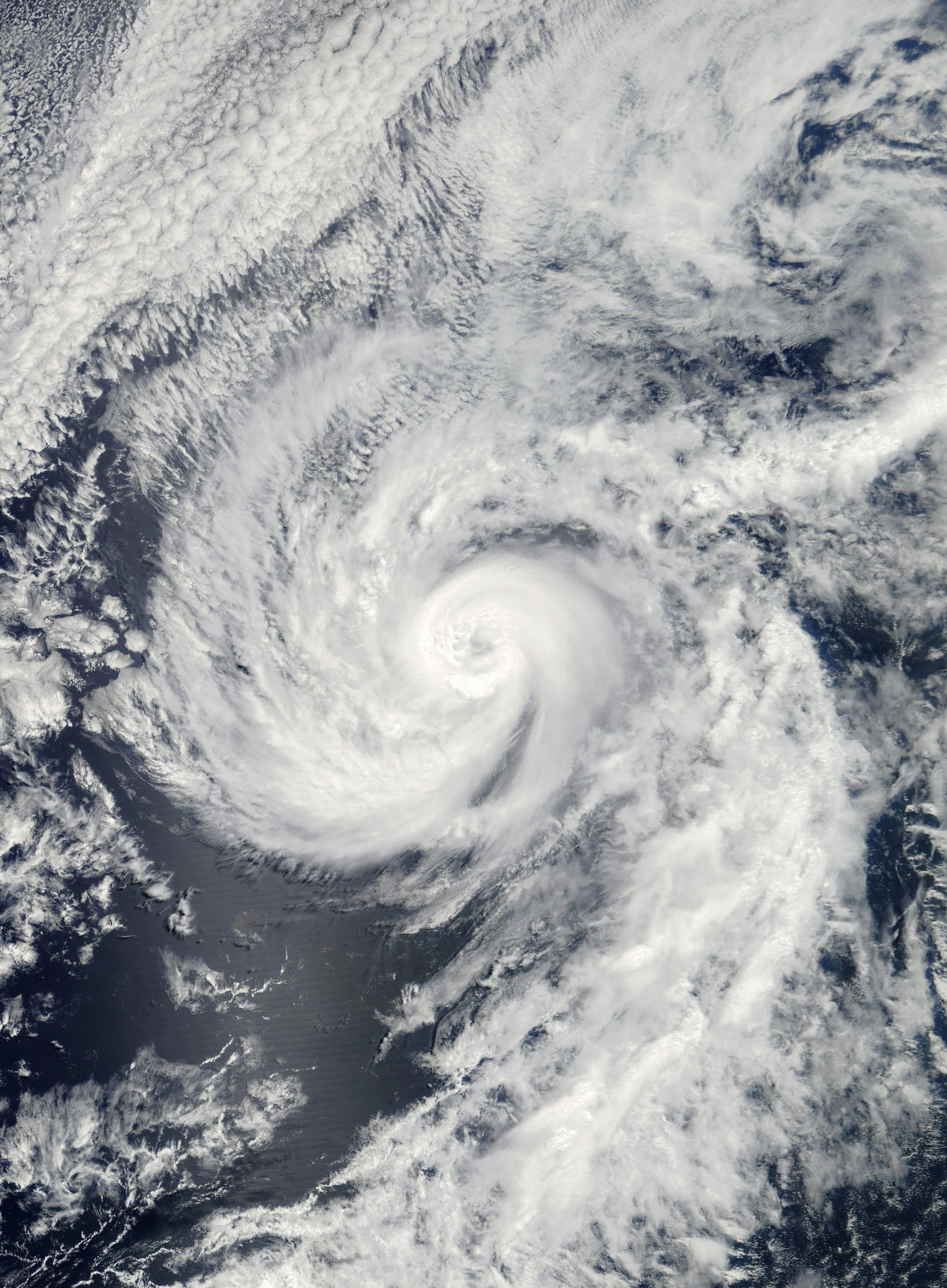 Hurricane Cosme at peak intensity in the Eastern Pacific Ocean on July 16, 2007